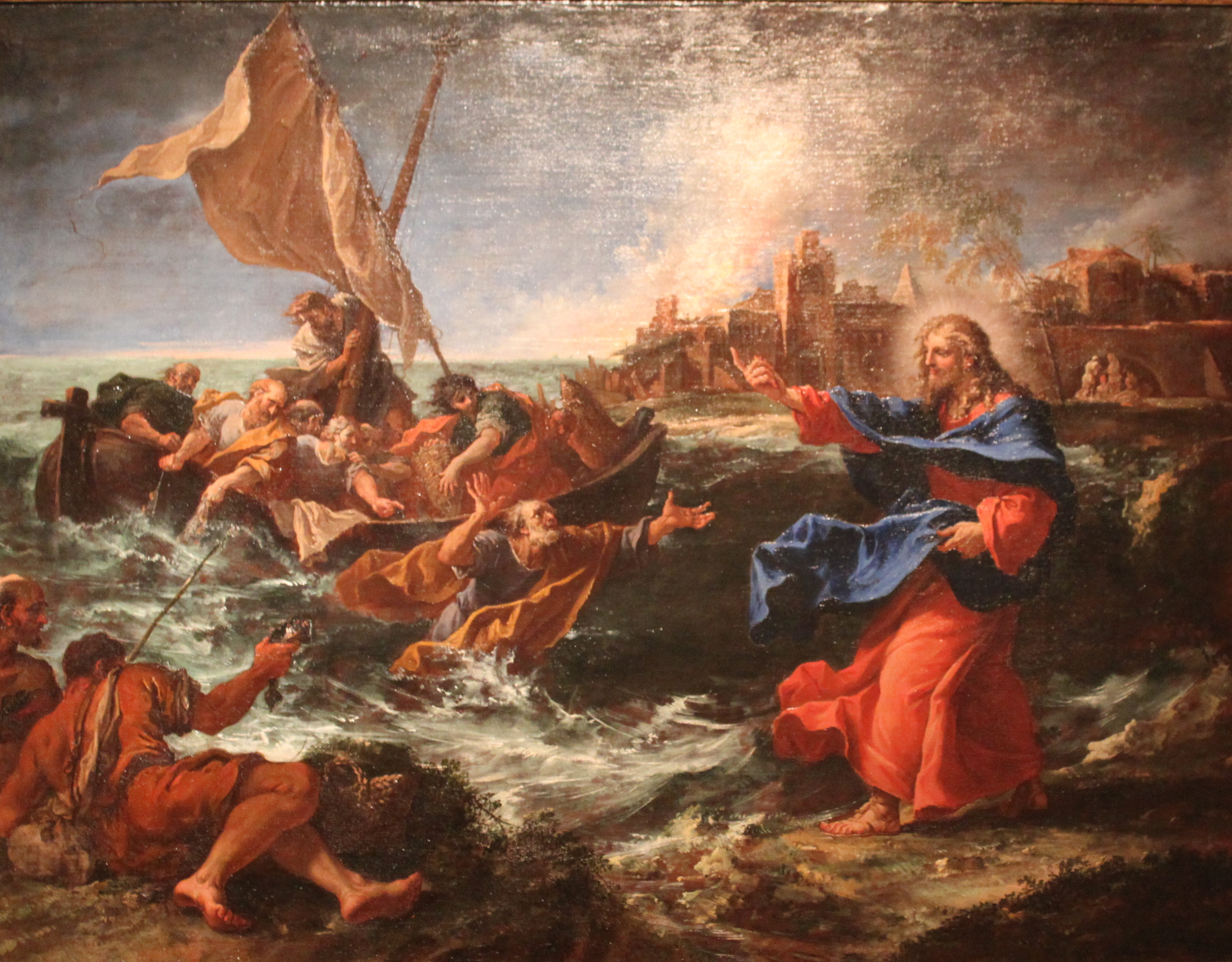 "The Miraculous Draught of Fishes"